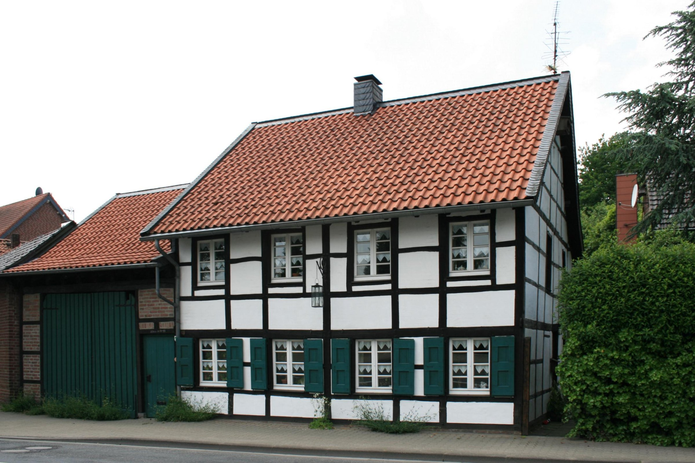 Cultural heritage monument No. R 082 in Mönchengladbach